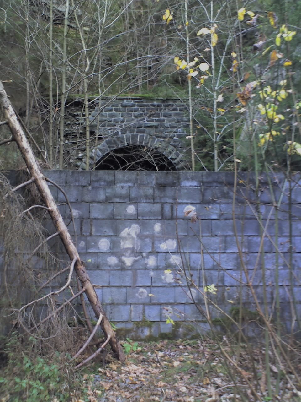 The Kesselfelstunnel in the Hoellenthal